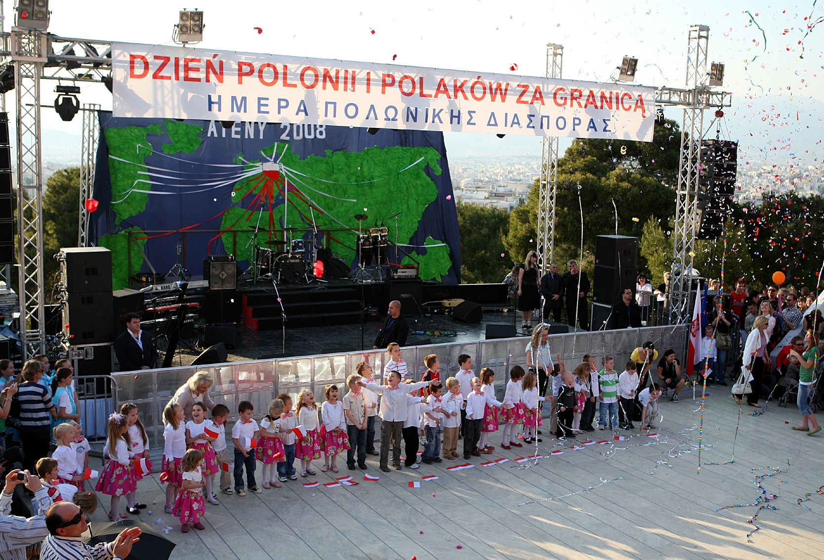 Polonia and Poles Abroad Day. Athens 2008